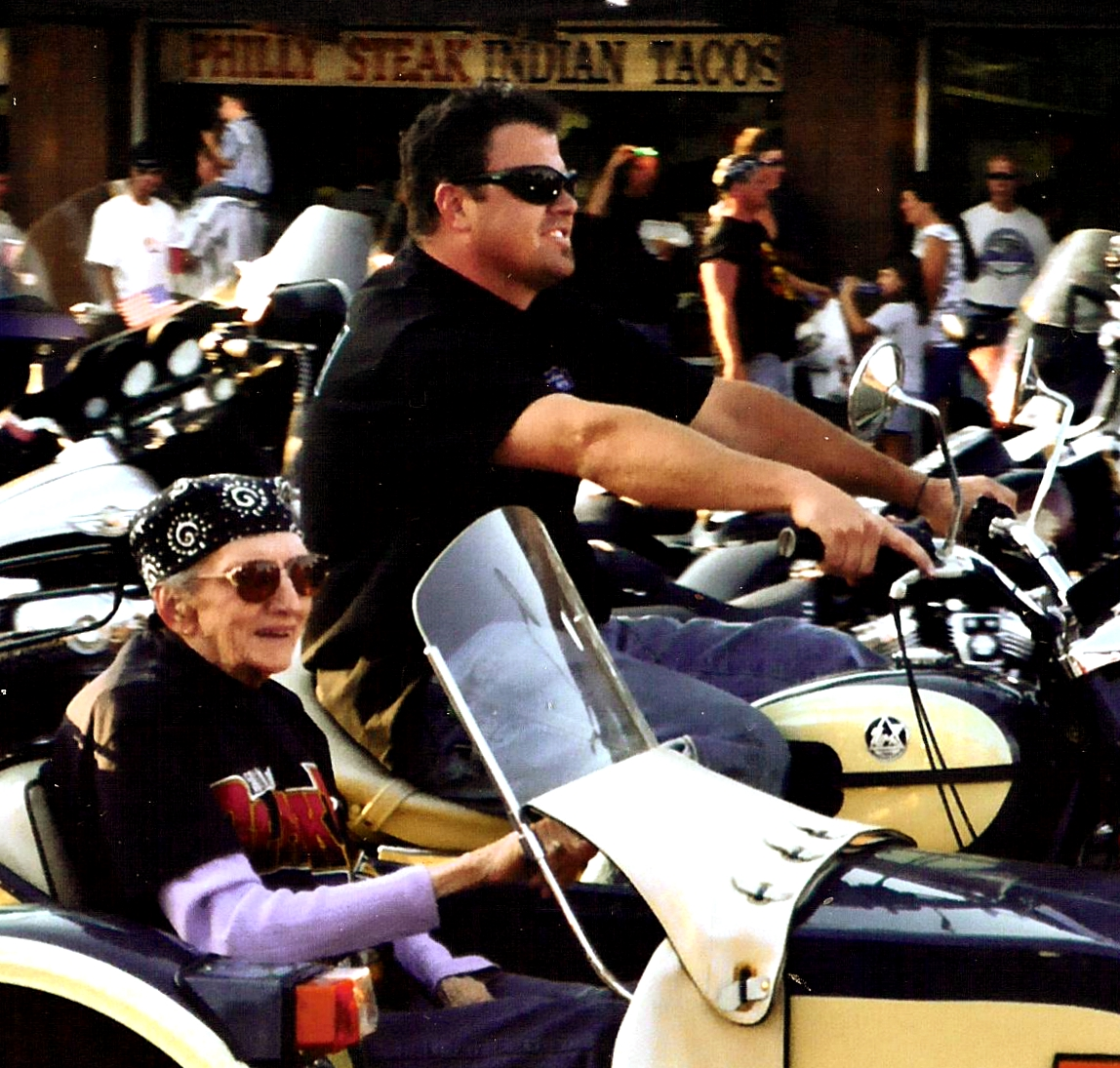 2005 Sturgis Motorcycle Rally, Granny in sidecar. The older they are, the tougher they become